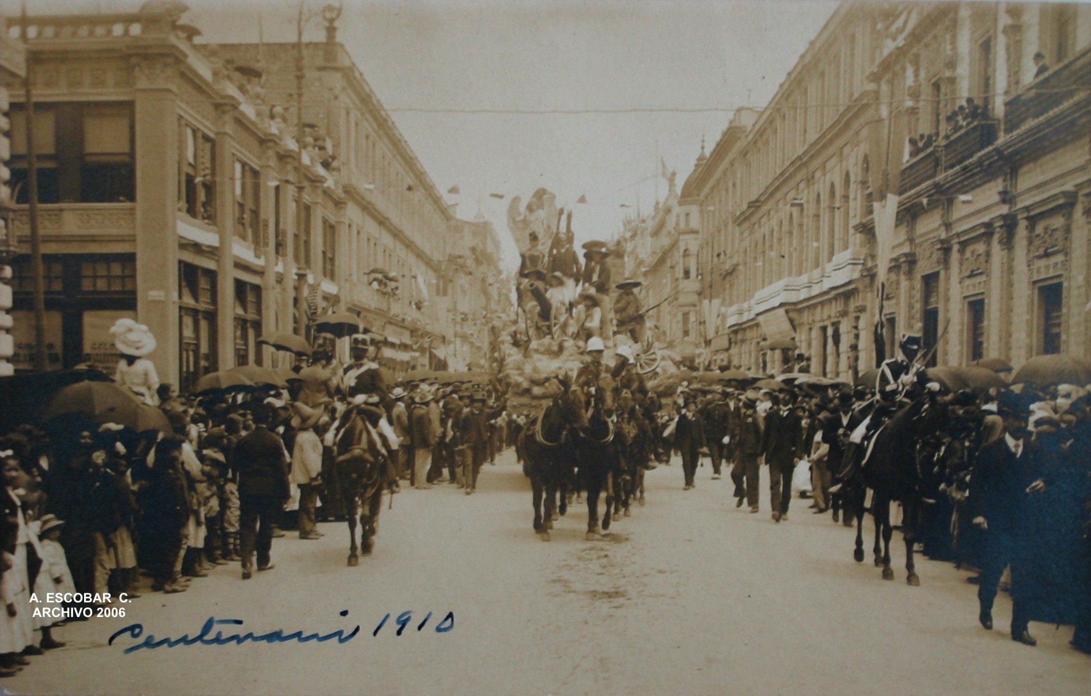 A Escobar C digital Archive Mexico's hundred years of independece festivity, 1910; parade, 16 september street